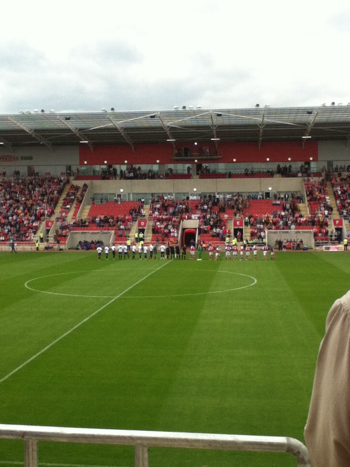 The first ever line up at the NYS in a friendly match versus Barnsley.